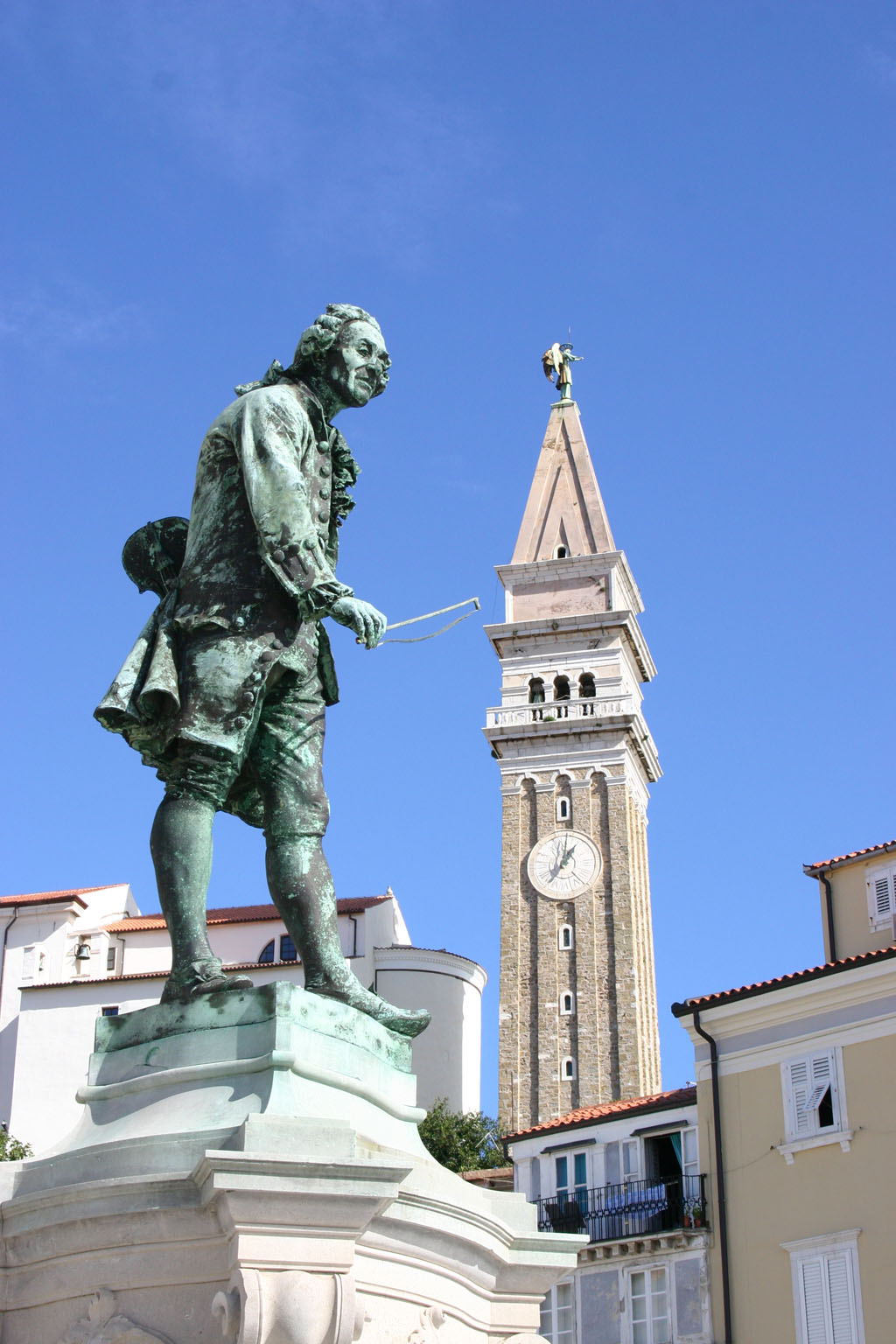 Statue of Giuseppe Tartini by Antonio Dal Zotto in Piran, Slovenia